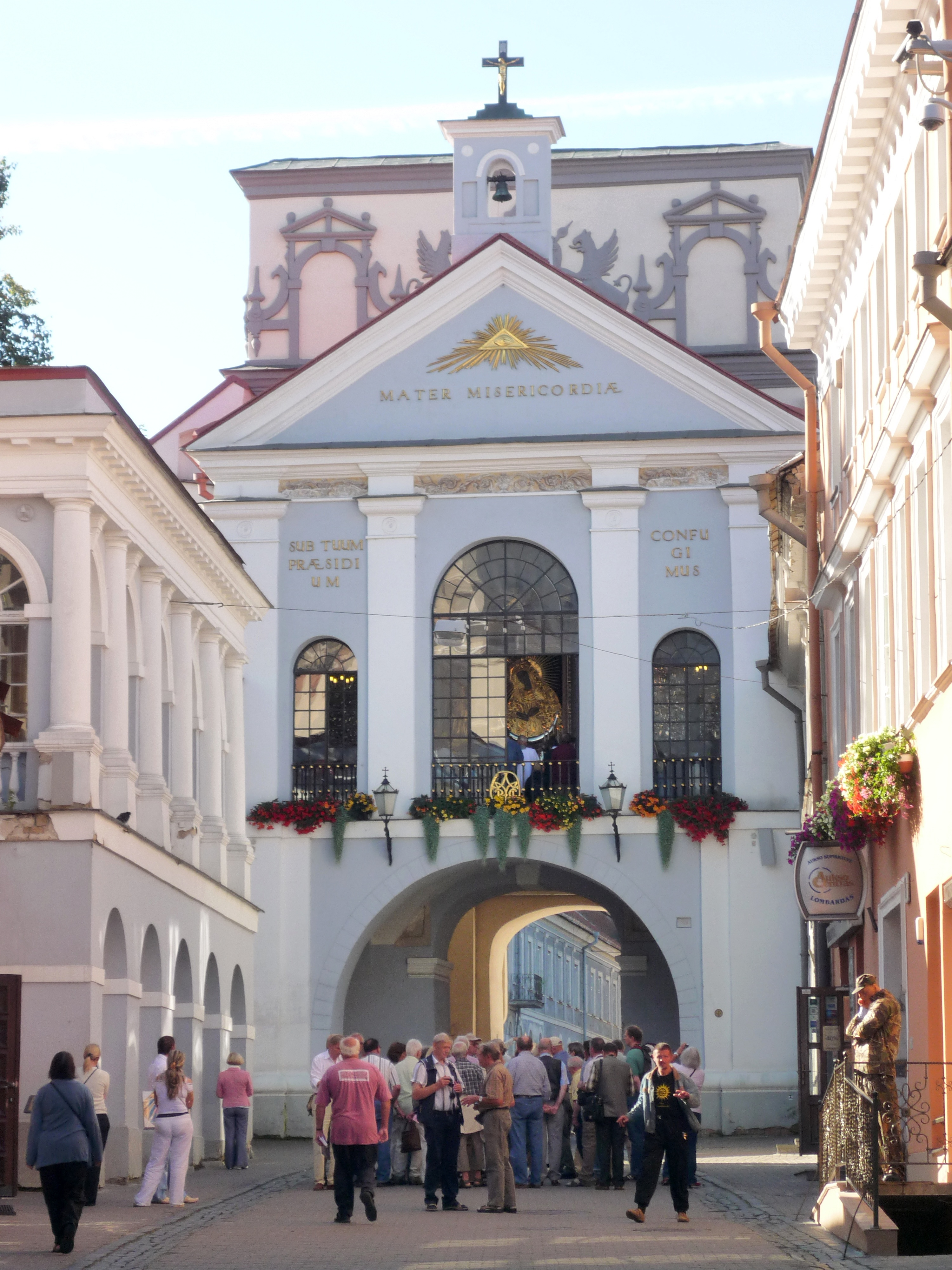 Dawn Gate (street) in Vilnius